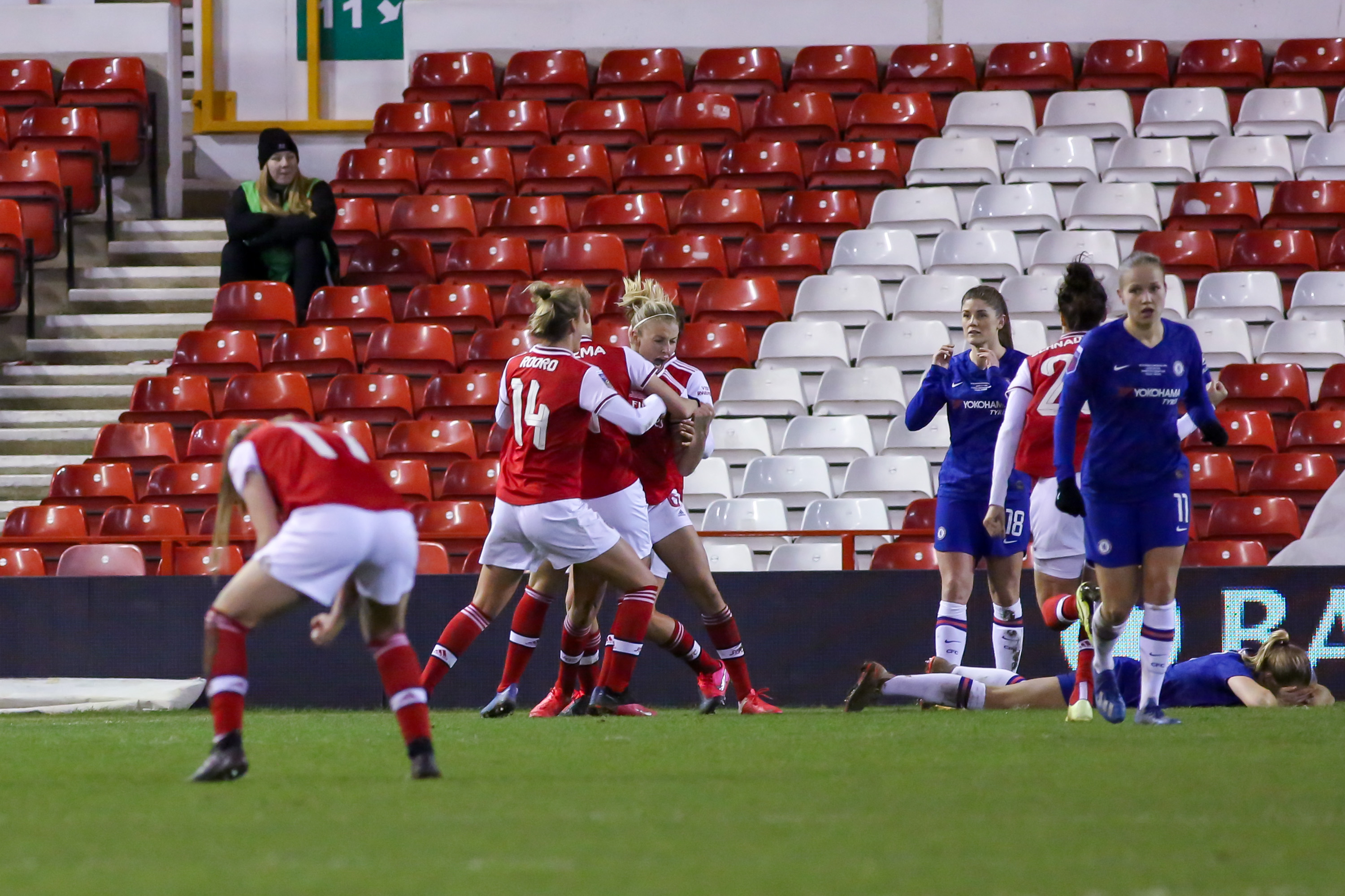 Arsenal players celebrating scoring equaliser.